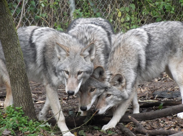 Coywolf hybrids are also known to bond together and form packs, a common trait shared between both the coyotes and wolves.